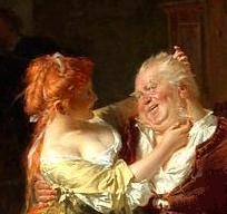 detail of E von Grutzner painting of Doll Tearsheet sitting on Falstaff's lap